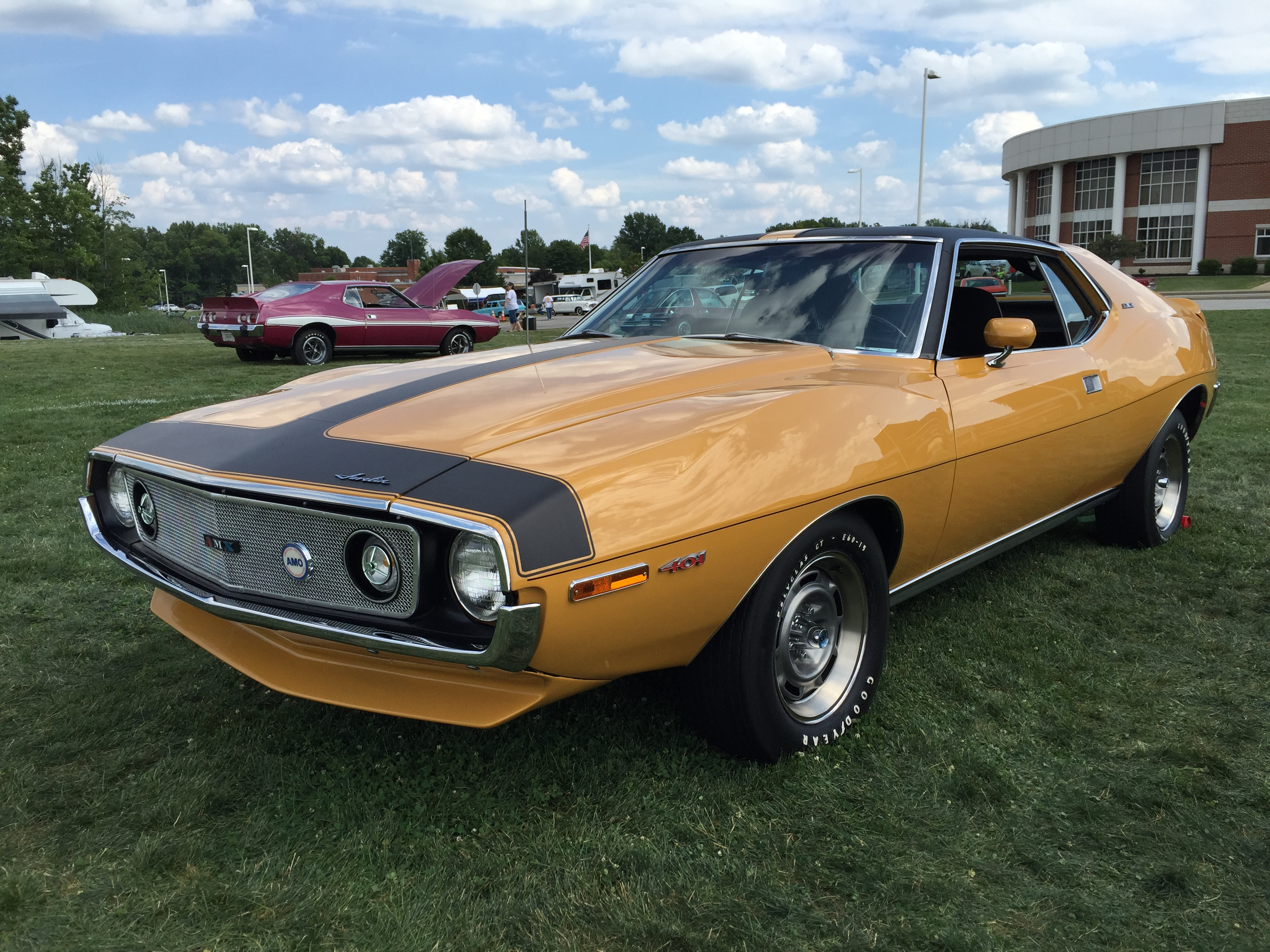 1971 AMC Javelin AMX, a muscle car made by American Motors Corporation (AMC). Originally a GT-type two seater from 1968 to 1970, the AMX name was applied in 1971 to the top high-performance level of the "pony car" Javelin. This car has the 401 Go Package that includes AMC's 401 cubic inch (6.6 L) 4-barrel V8 engine producing 335 hp, "Rally-Pac" instruments, handling package, “Twin-Grip” differential, heavy-duty cooling, power disc brakes, white-letter E60x15 Goodyear Polyglas tires on 15x7-inch styled slotted steel wheels (originally used on the Rebel Machine), and a blacked-out rear panel. This factory original AMX is finished in Mustard Yellow (paint code B8) and has the T-stripe decal in black on the fiberglass full-width cowl induction hood to complement the twin cove black vinyl covered roof. The front and rear spoilers were also standard on all 1971 AMXs. This car also has the factory AM/FM stereo radio. Picture taken at the car show on Saturday, July 25, 2015, during the American Motors Owners Association (AMO) annual convention that was held near Cleveland, Ohio.